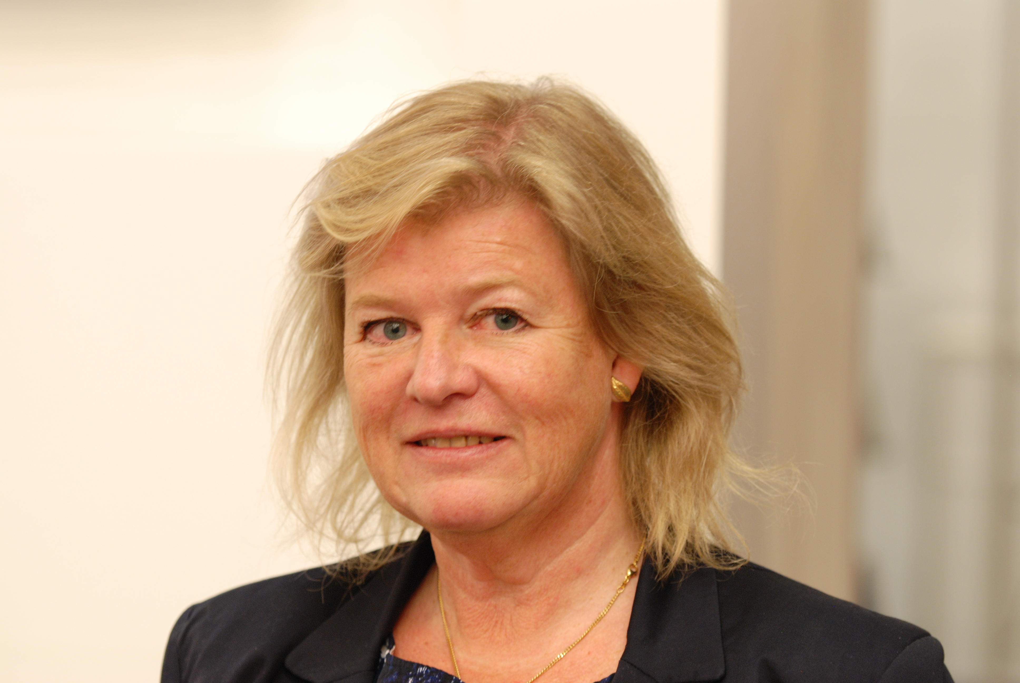 The member of the Swedish parliament Maria Plass at Göteborg Book Fair 2013.